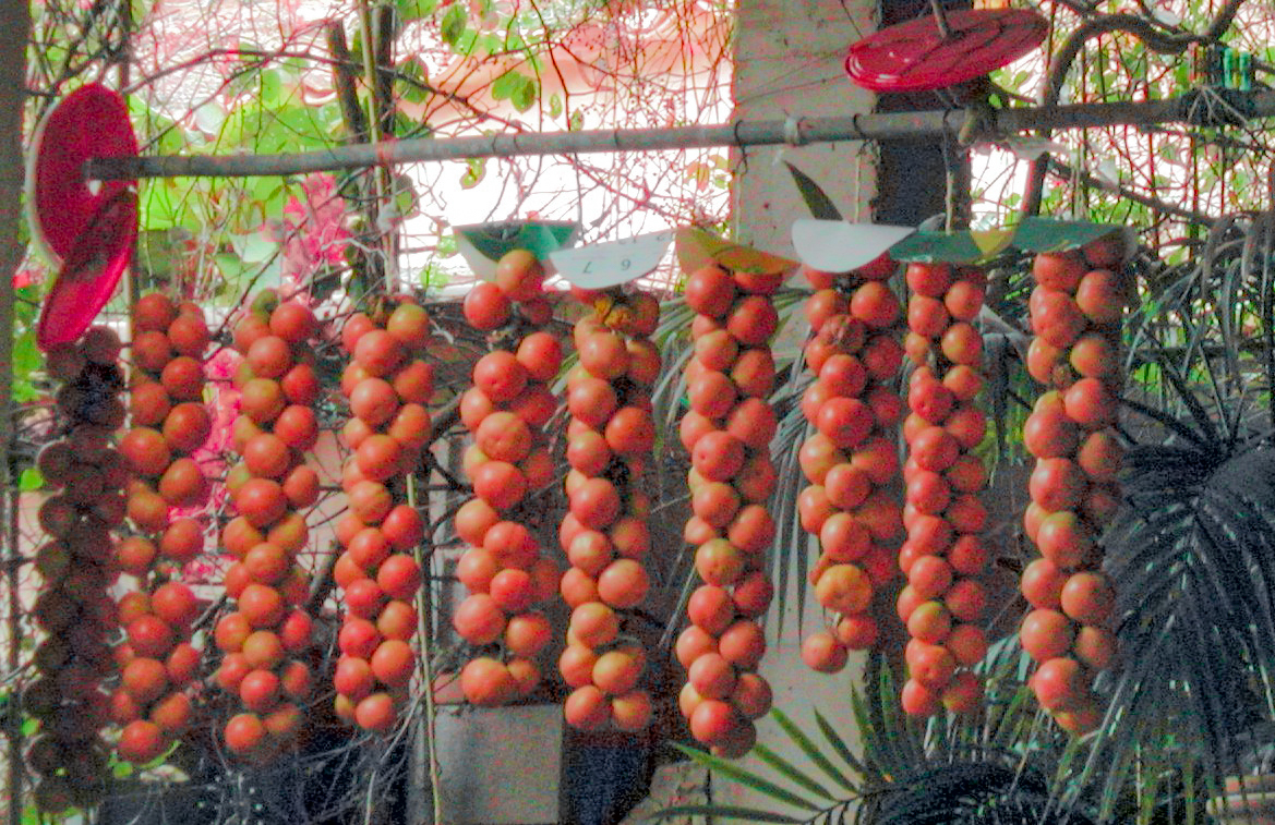 Tradicional hanging tomatoes at Deià. Notice the anti-rats protection (Balear island)